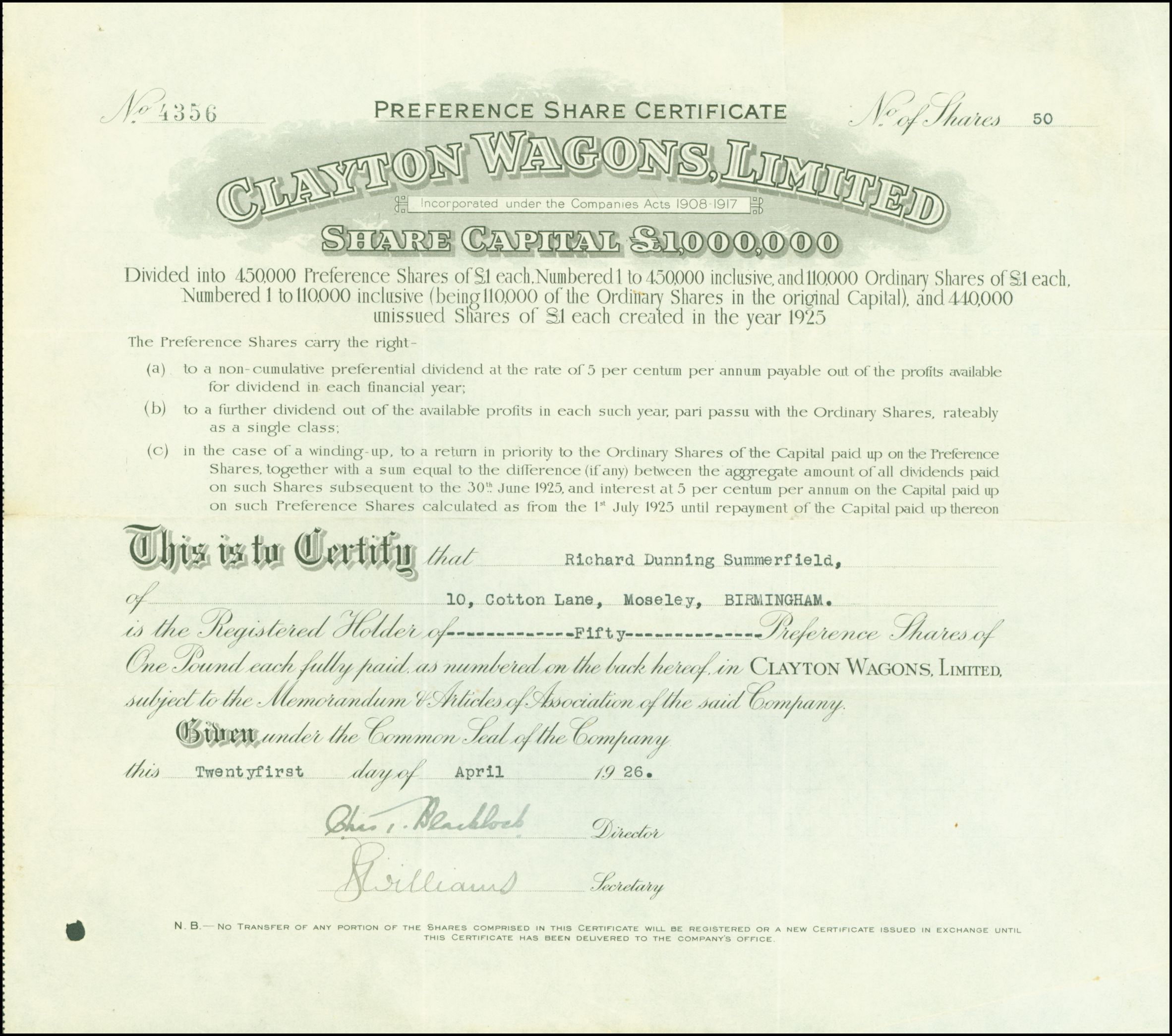 Share of the Clayton Wagons Ltd., issued 21. April 1926